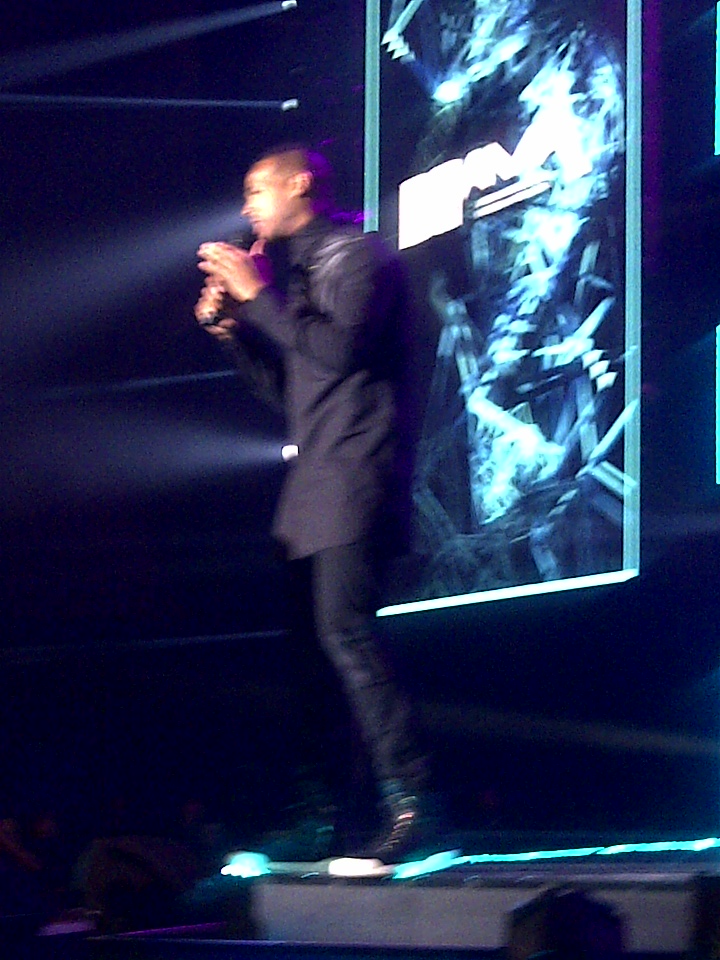 Marlon Wayans at ICC Durban